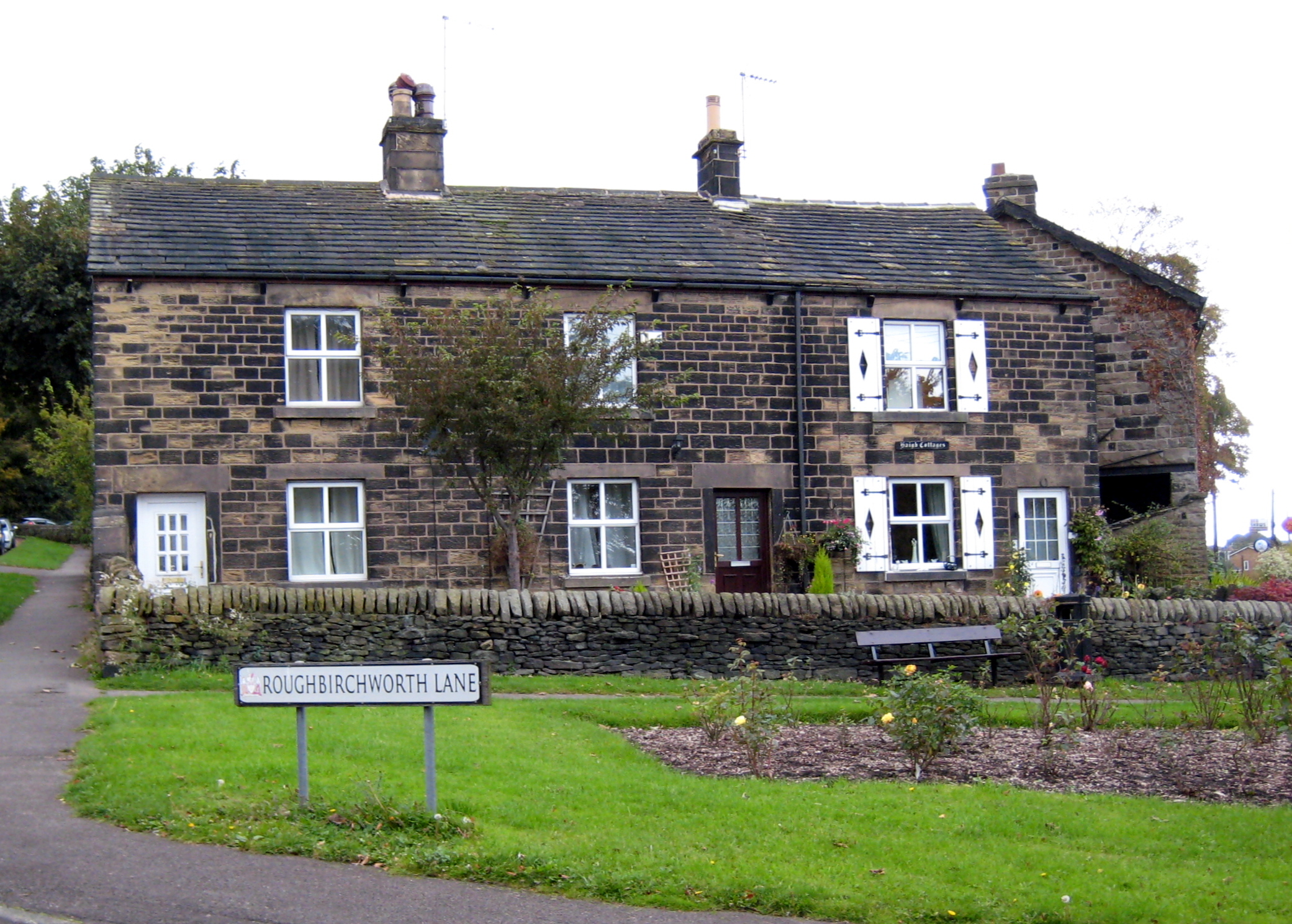 Roughbirchworth Lane, Oxspring, South Yorkshire S36 8YQ. Haigh cottages at the junction with Sheffield Road